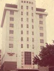 Old picture of the Banco Popular Building in San Juan Old picture of the Banco Popular Building in San Juan